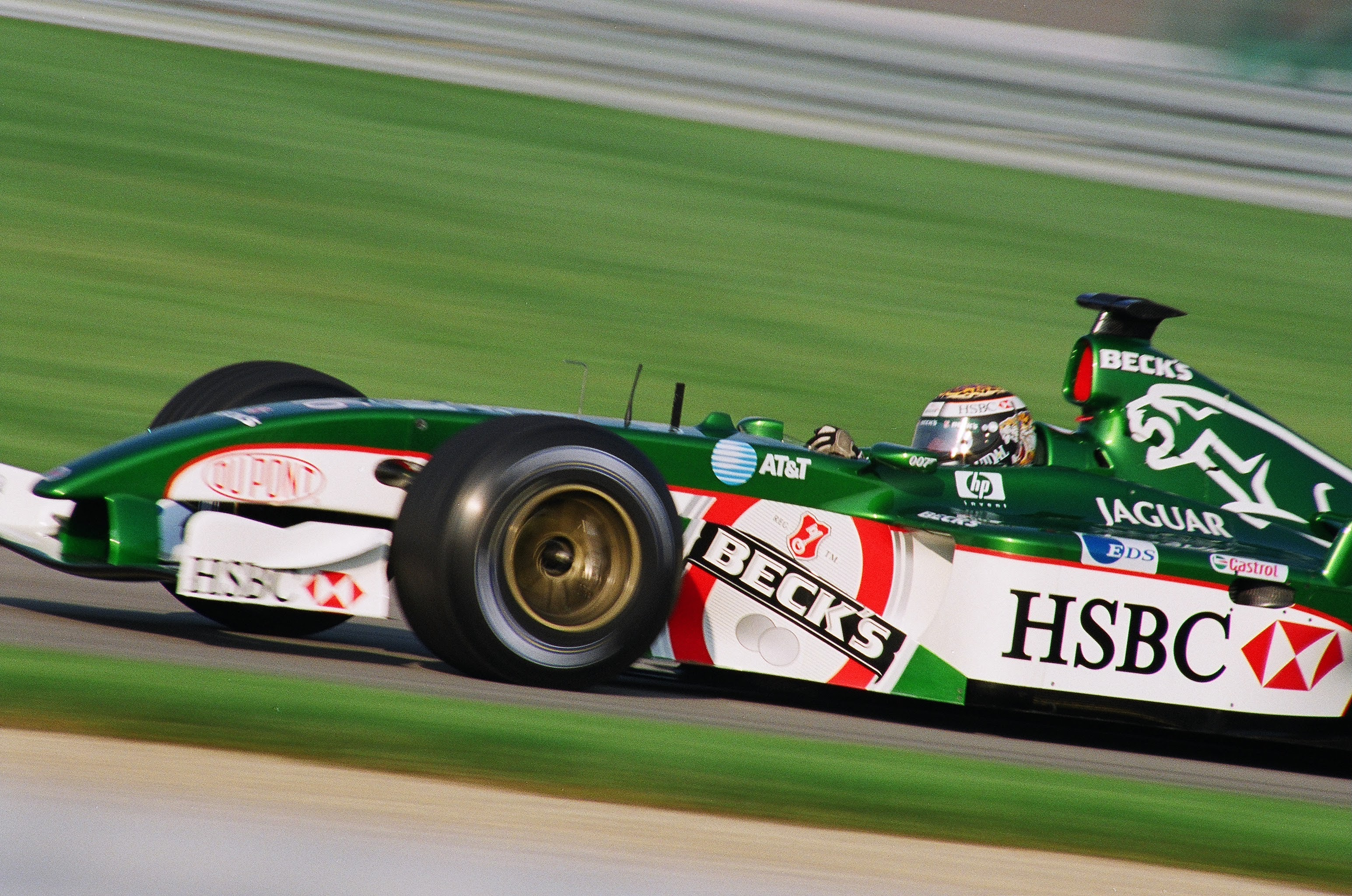 Eddie Irvine, Indianapolis, 2002